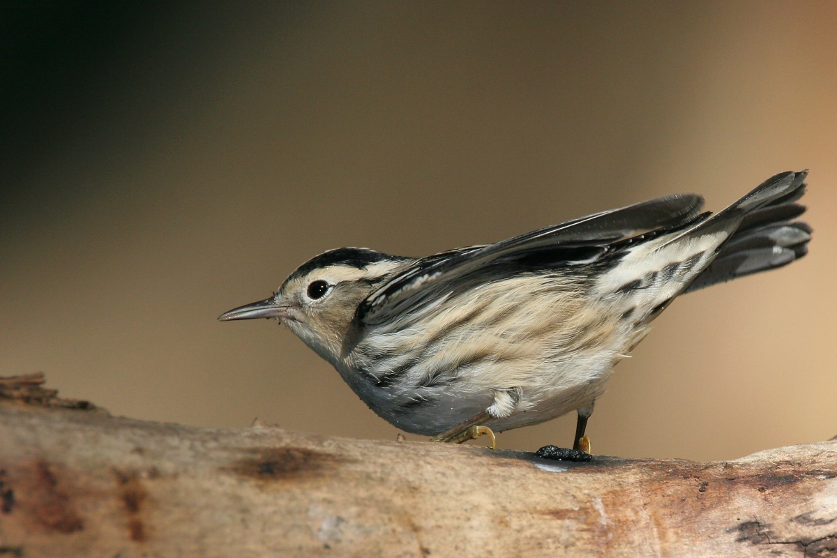 Black-and-white Warbler/Mniotilta varia